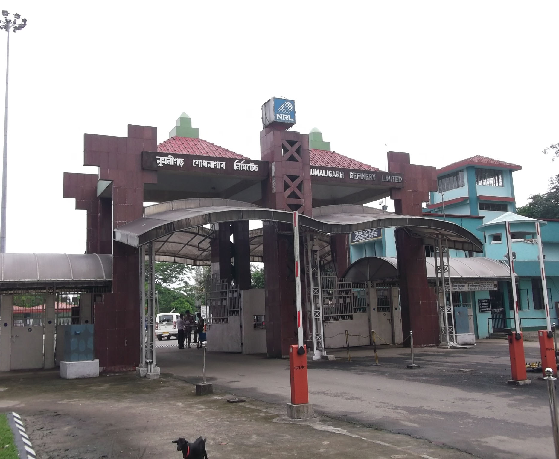 NRL Numaligarh main gate